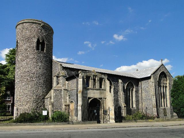 St Mary Coslaney, Norwich